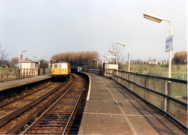 Woodlands Road Metrolink station Original description: Woodlands Road station 1989